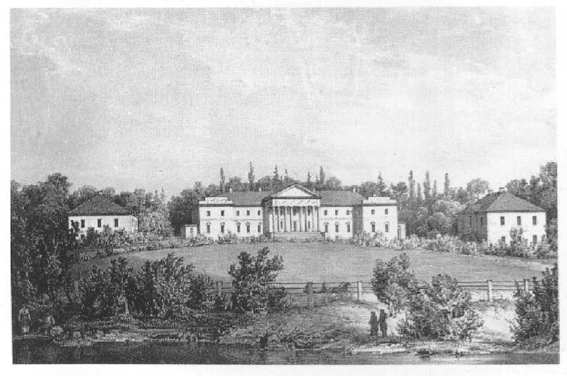 Manor House in Wierzchownia, residence of Ewelina Hańska. Litography by Napoleon Orda.